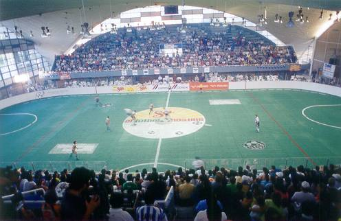 I took this image back in 2000, at the Monterrey Tech Gym.